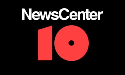 This is a logo owned by Sinclair Broadcast Group for KTVL. It is a historical logo. Its historical usage is as follows: This logo was made specifically for historical purposes.. Further details: KTVL's NewsCenter 10 logo was created in 1981 back when they were an NBC affiliate.